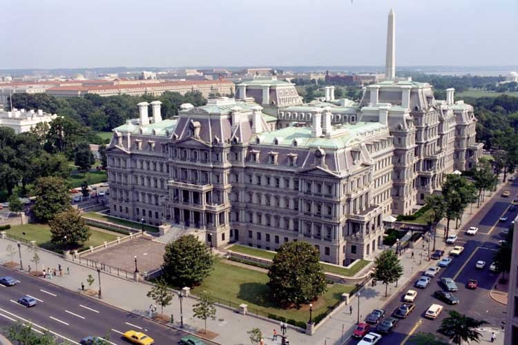 The Old Executive Office Building in 1981, during the administration of Ronald Reagan